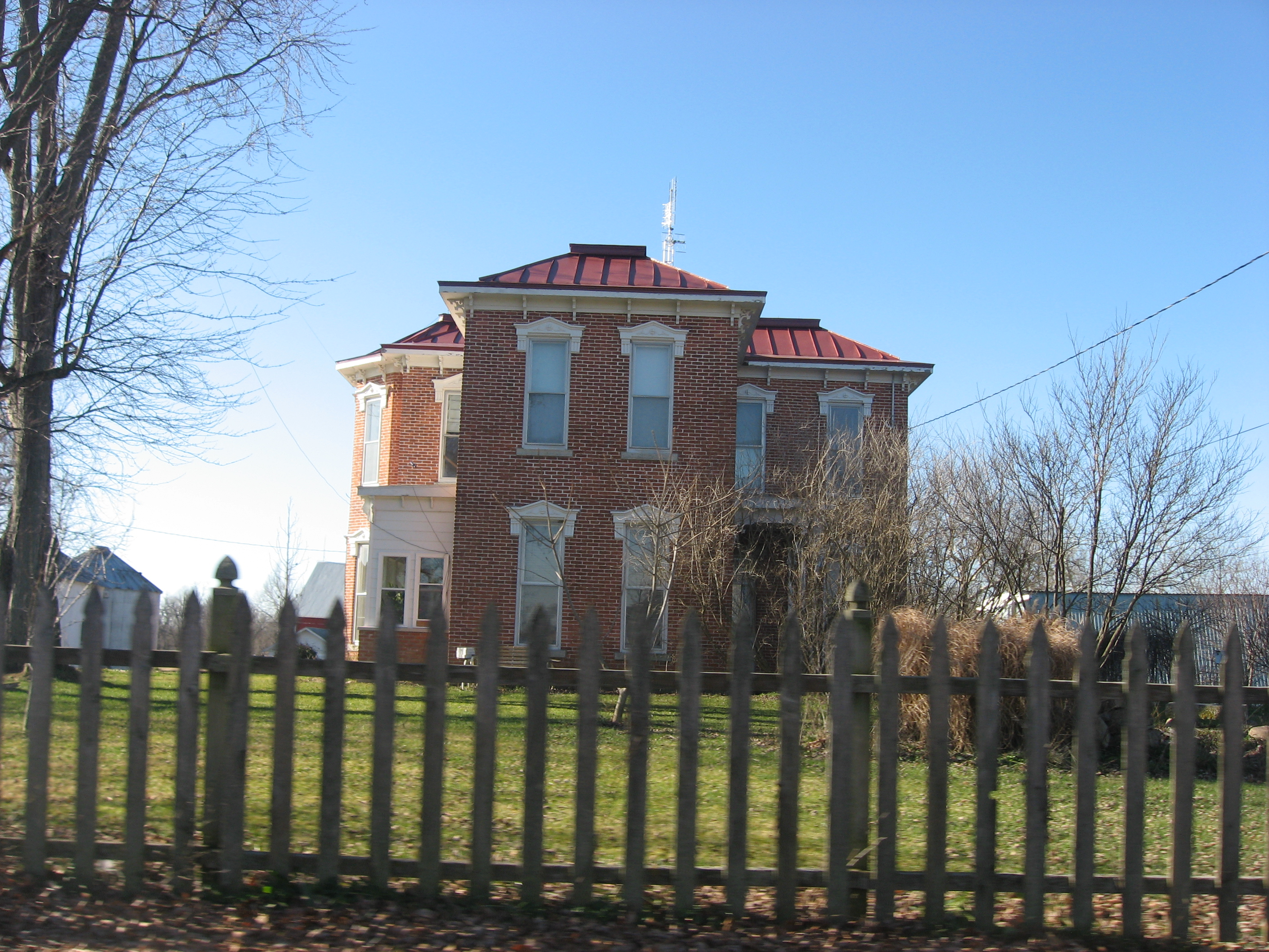 Front of the James Haines Farmhouse, located along the western side of Boundary Pike just south of County Road 300S southeast of Portland in Pike Township, Jay County, Indiana, United States. Built in 1884, it is listed on the National Register of Historic Places, together with several associated farm buildings.